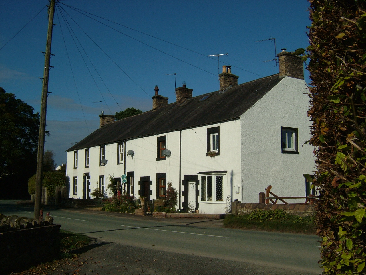 Hallbankgate a village in Cumbria on the A689 Brampton to Alston road. It is village with a mining tradition on the former 'Lord Carlisle's 1775 railway'.